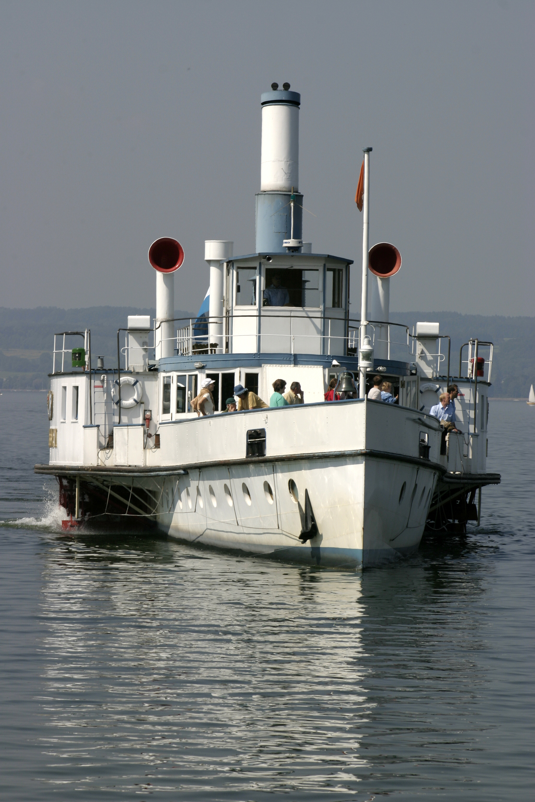 Diesel-powered paddlewheeler “Diessen” on the Lake Ammersee